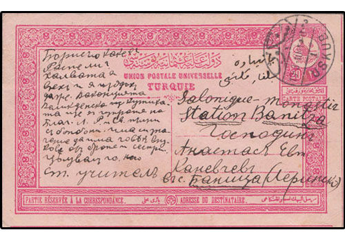 letter to IMARO activist Anastas Kanevchev